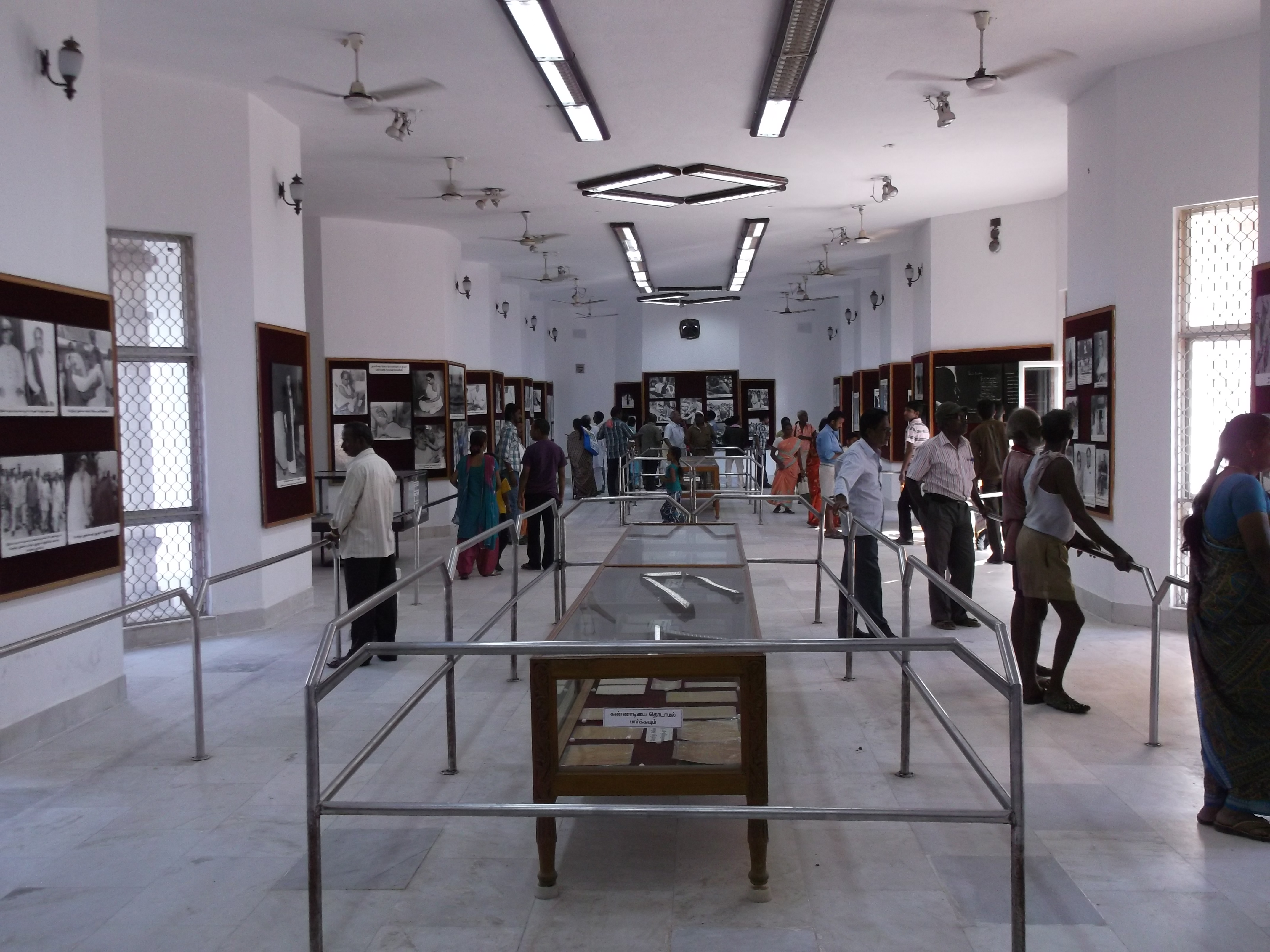 Chennai Anna Memorial museum hall, taken on 2-Feb-2013 at around 4.00 pm